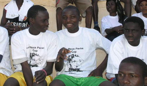 Basketball clinic participants at the 3rd Annual Rosa Parks Cup Rosa Parks Cup launches BHM 2008 commemoration The U.S. Embassy’s American Cultural Center, in partnership with the Nigerien National Basketball Federation (FENIBASKET), launched its 2008 Black History Month activities on February 7-8 in the city of Zinder with a two day basketball clinic for young girls and boys, followed by the third annual Rosa Parks Women’s Basketball Cup. This year’s game pitted the women’s regional team of Zinder against the visiting team from Maradi.